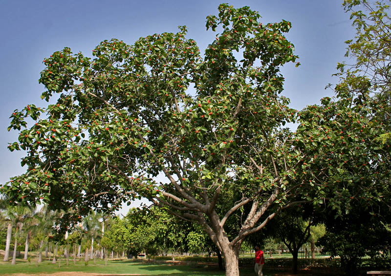 Banyan Ficus benghalensis in Hyderabad, India.